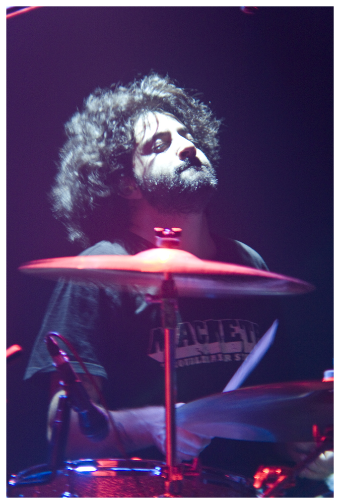 Franco Salvador in a show at La Trastienda.